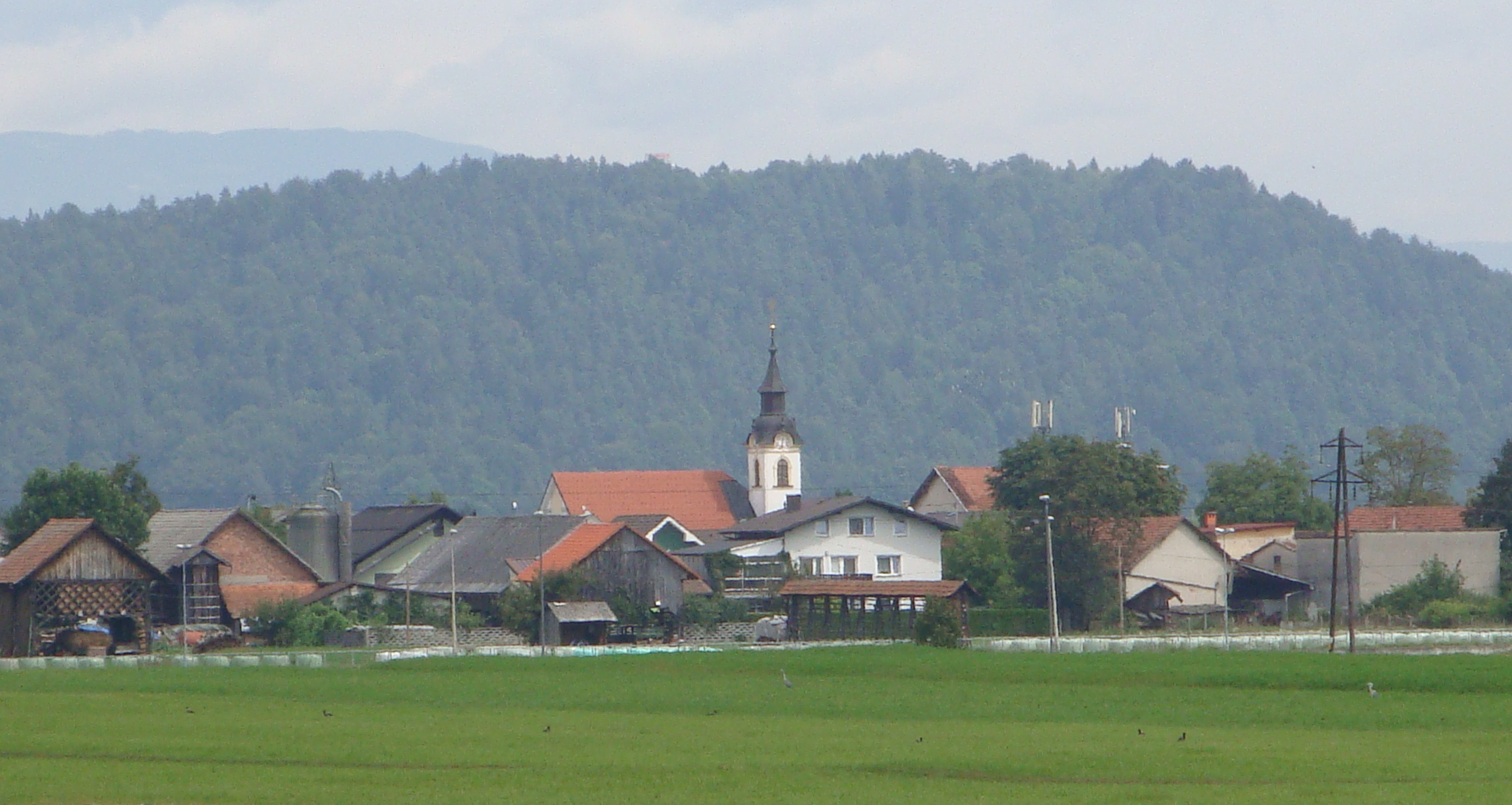 Tomačevo, Ljubljana, Slovenia